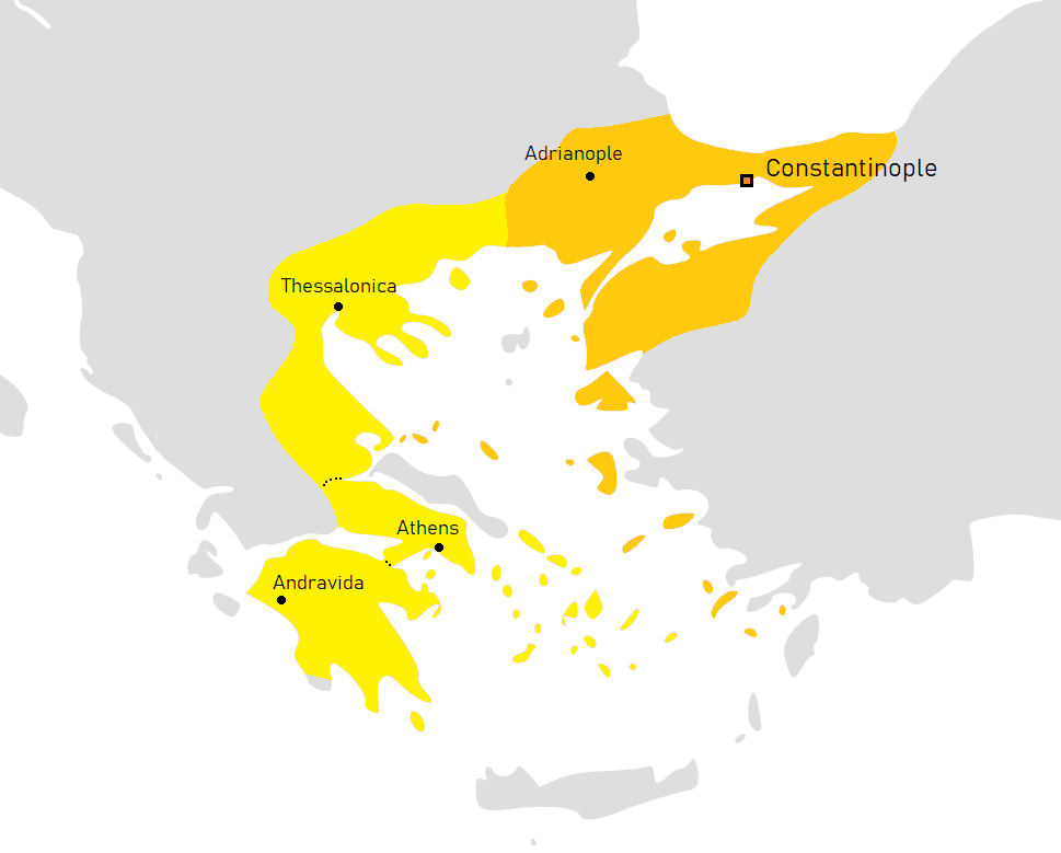 Map of the Latin Empire in 1204, follows